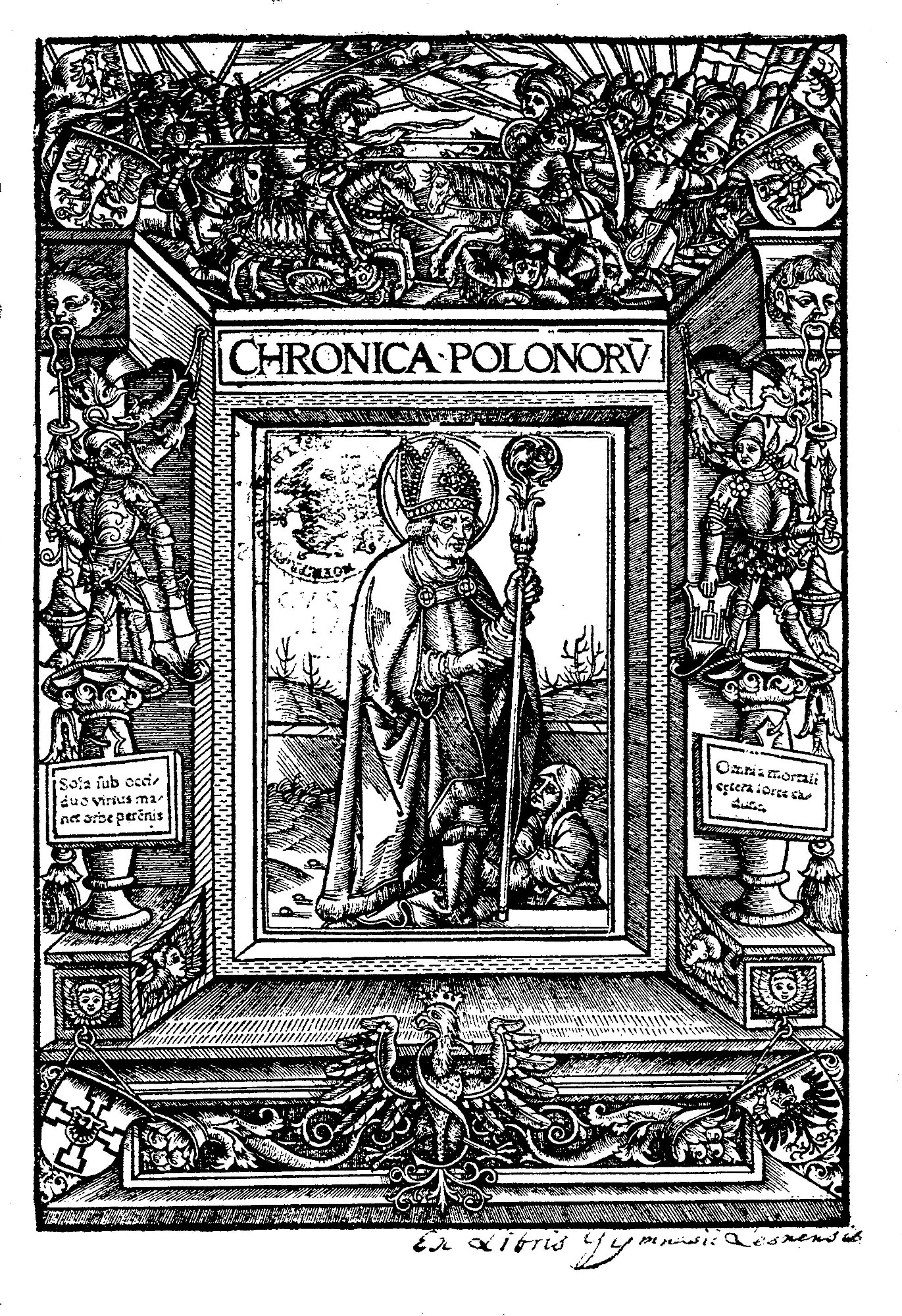 Title page of Chronica Polonorum by Maciej Miechowita (1521).